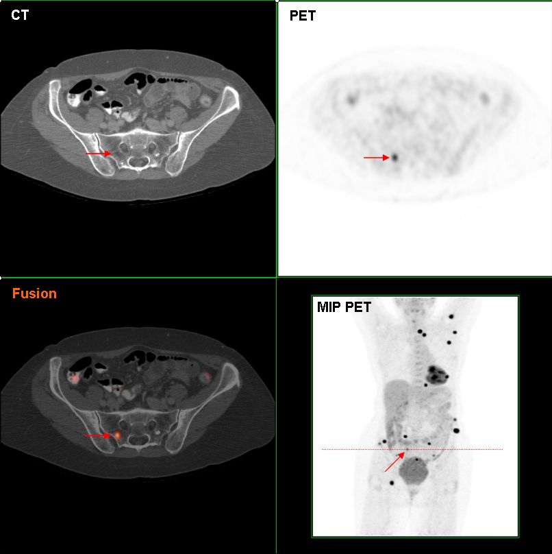 Melanoma in F18-FDG PET/CT; Picture courtesy of "Südwestdeutsches PET-Zentrum Stuttgart am Diakonie-Klinikum"; Equipment: GE Discovery 600